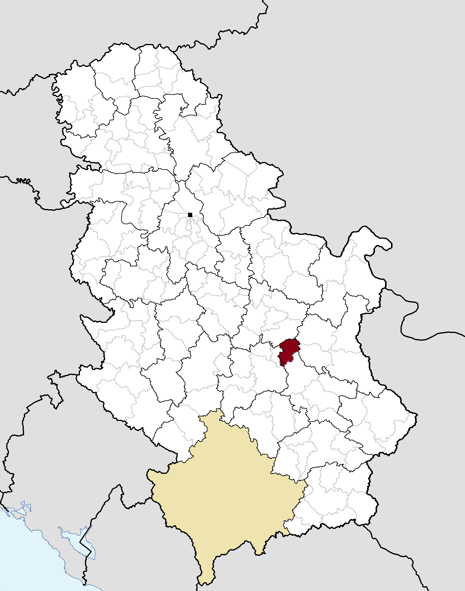 Municipal location in Serbia